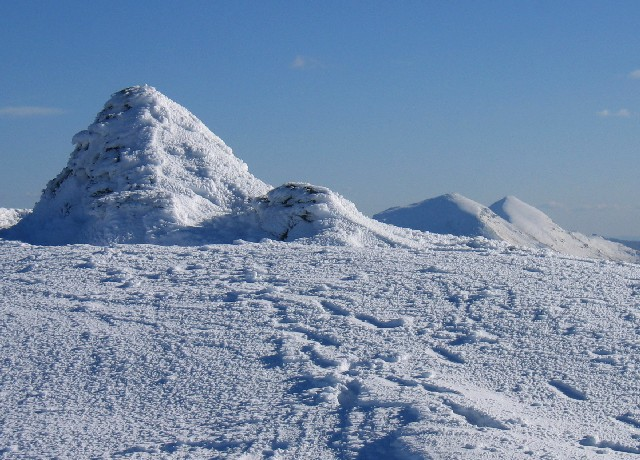 Summit cairn of Creag Mhor. In the distance is Ben More & Stob Binnein